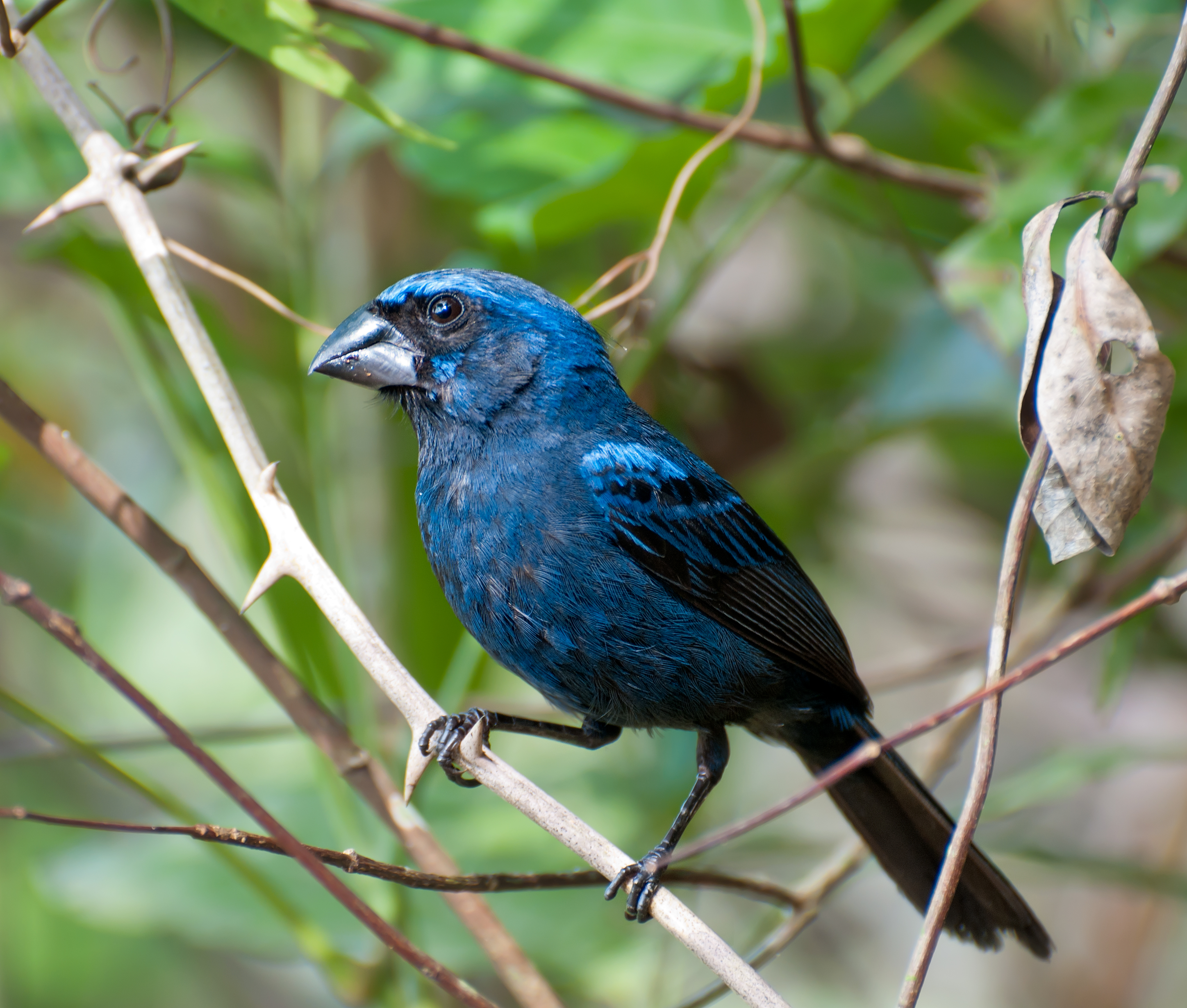 A male Ultramarine Grosbeak in Vale do Ribeira, Registro, São Paulo, Brazil.